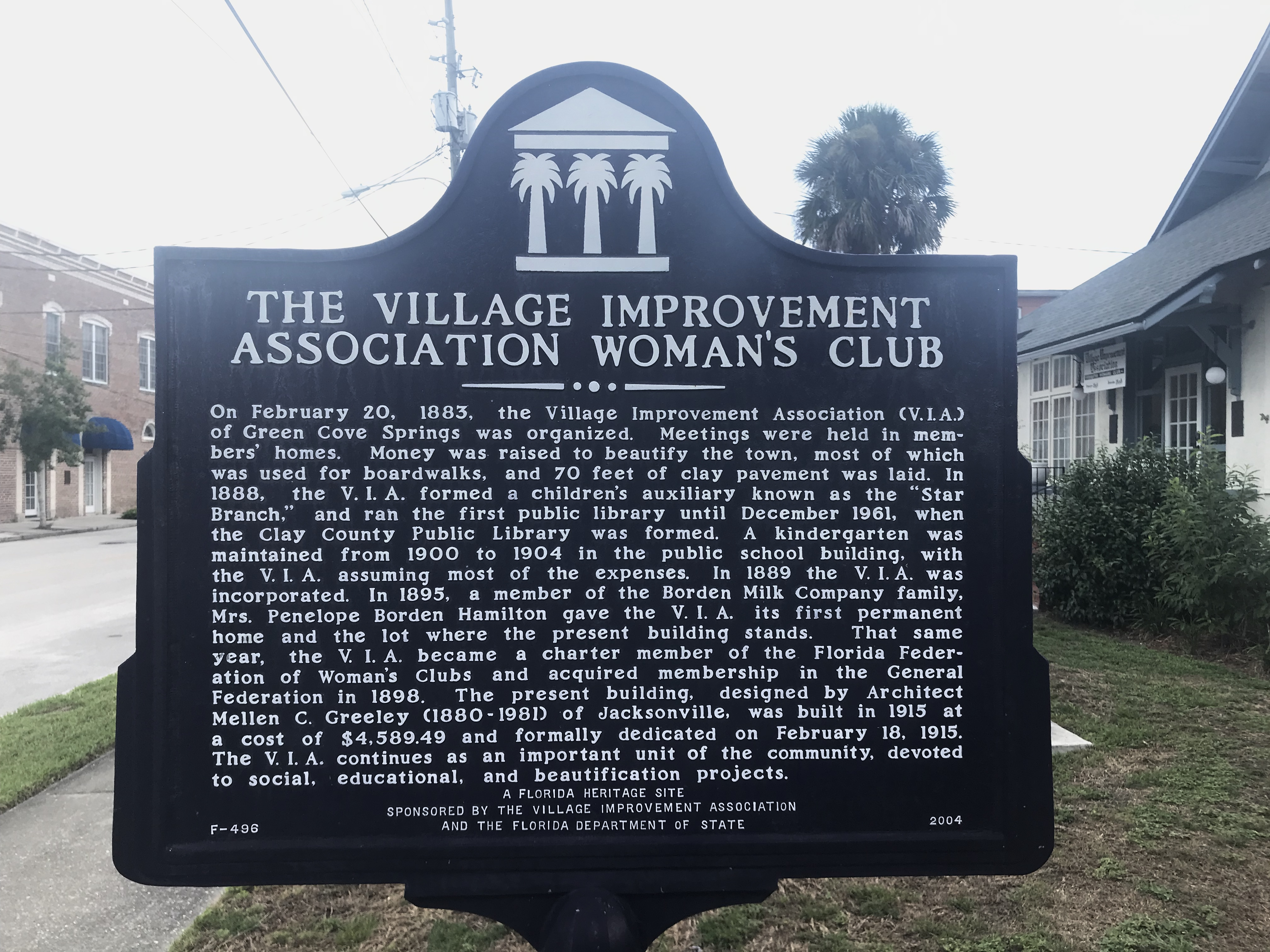 Green Cove Springs, Florida - Historical Marker for the Village Improvement Association